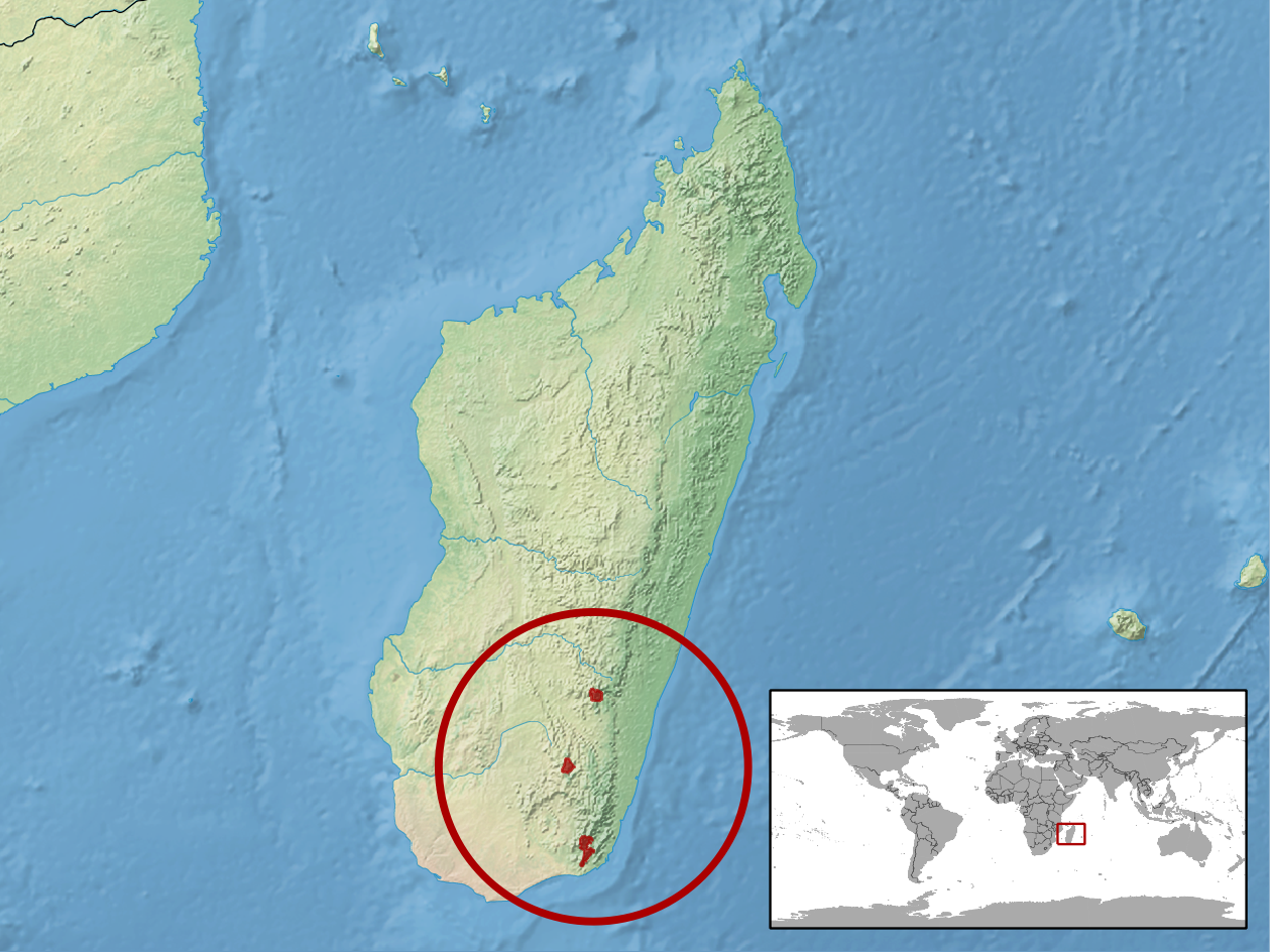 geographic distribution of Calumma andringitraense (Native: Madagascar)